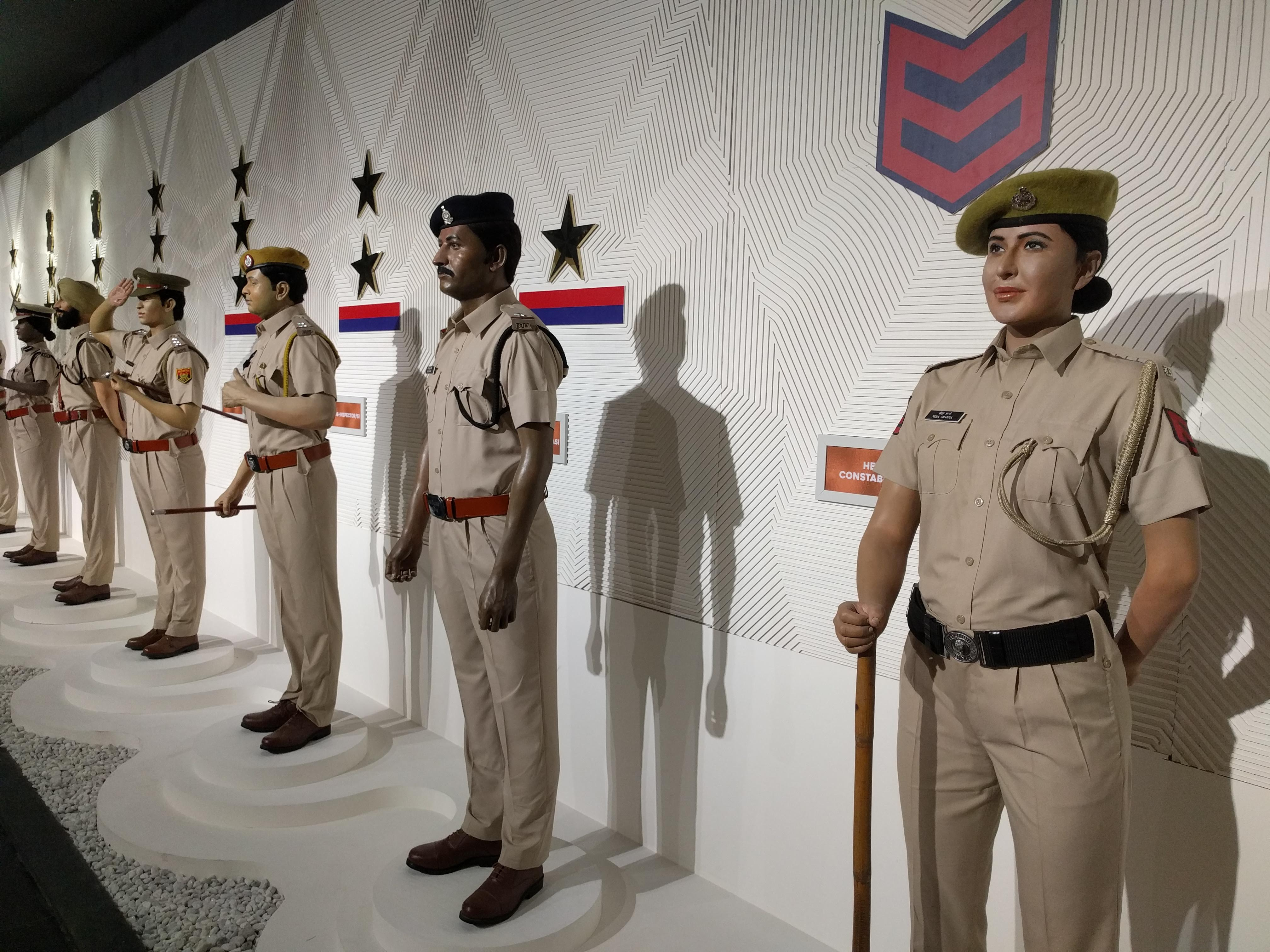 A display of the various ranks of the Indian police and their respective uniform at the National Police Memorial and Museum in India.